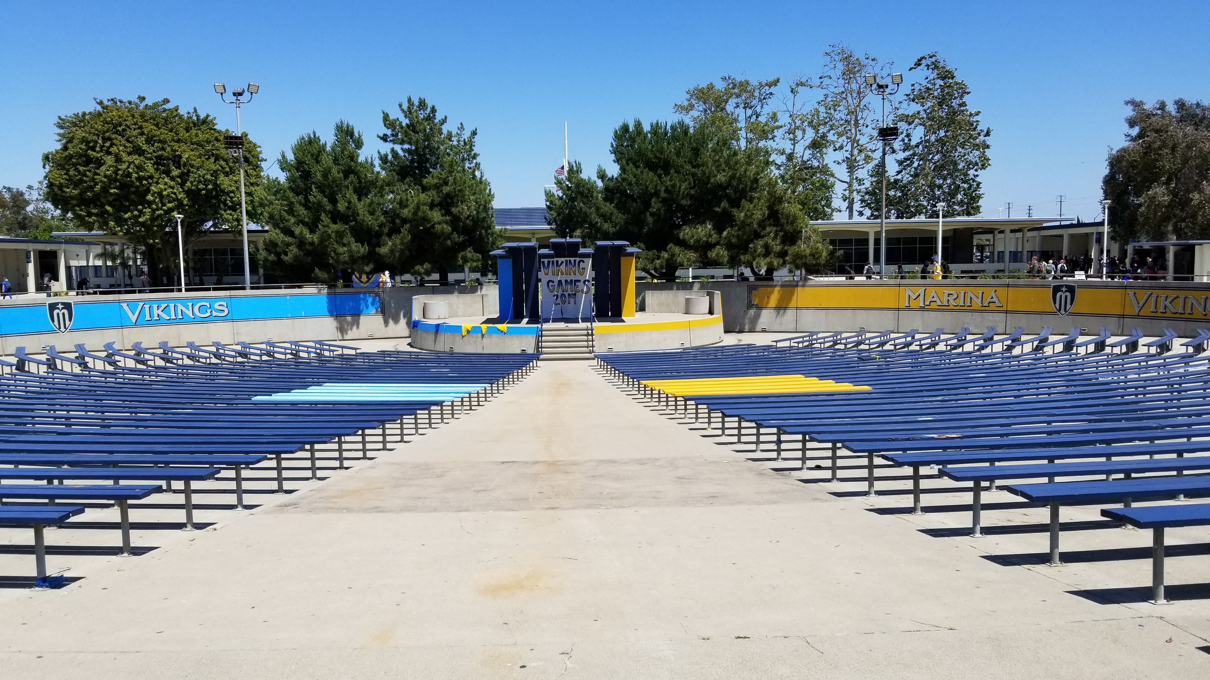 A picture of the Marina High School Bowl in Huntington Beach California